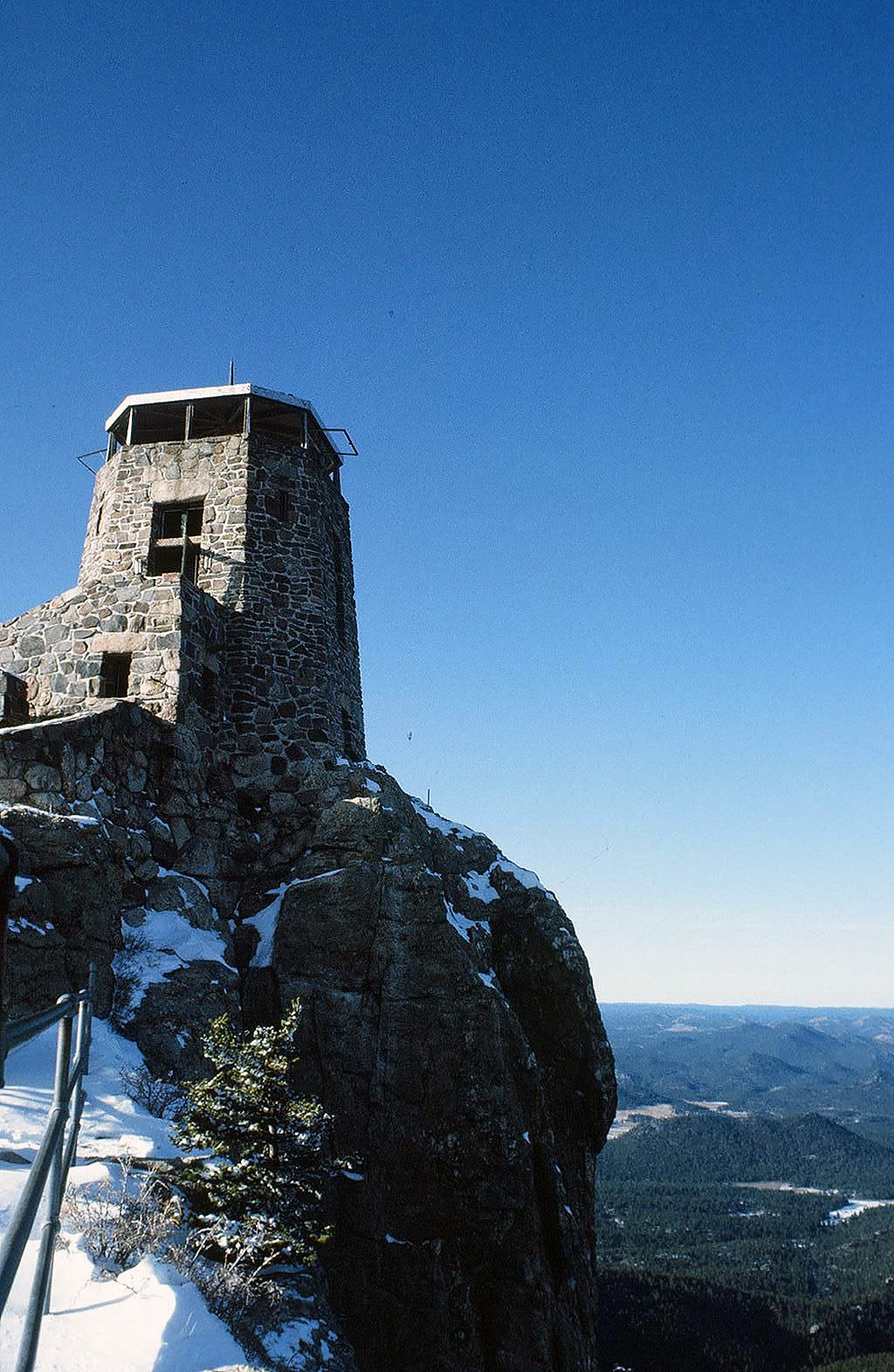 Harney Peak in February 1984